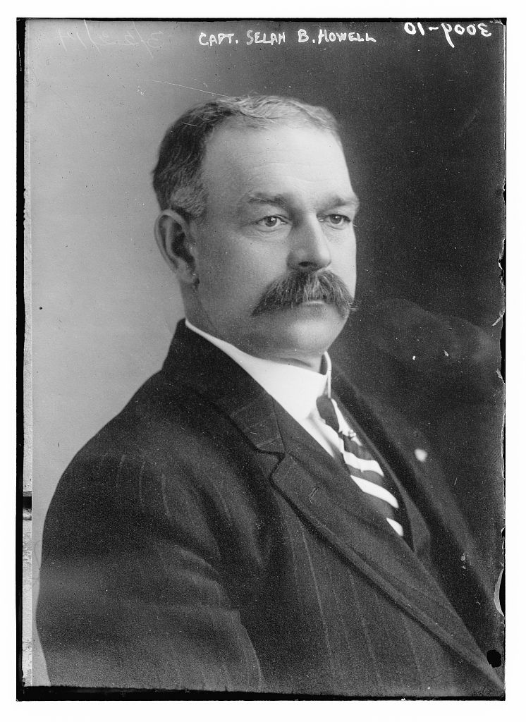 Selah B. Howell, captain of the yacht Defiance in 1914 format: 5in x 7 in or smaller glass negative